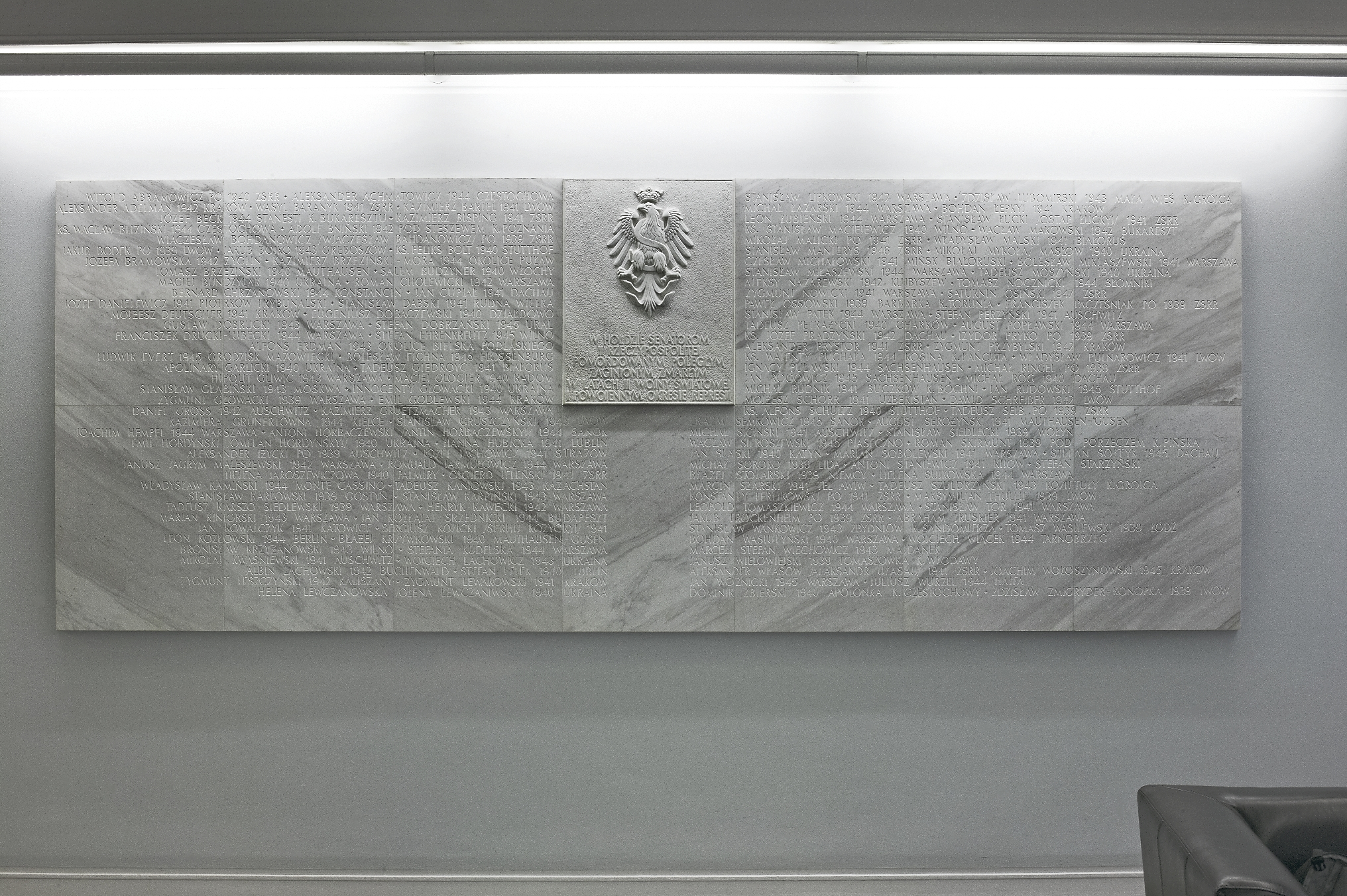 Plaque in memory of the Second Republic of Poland senators who died during WWII and the post-war period in the Polish Senate